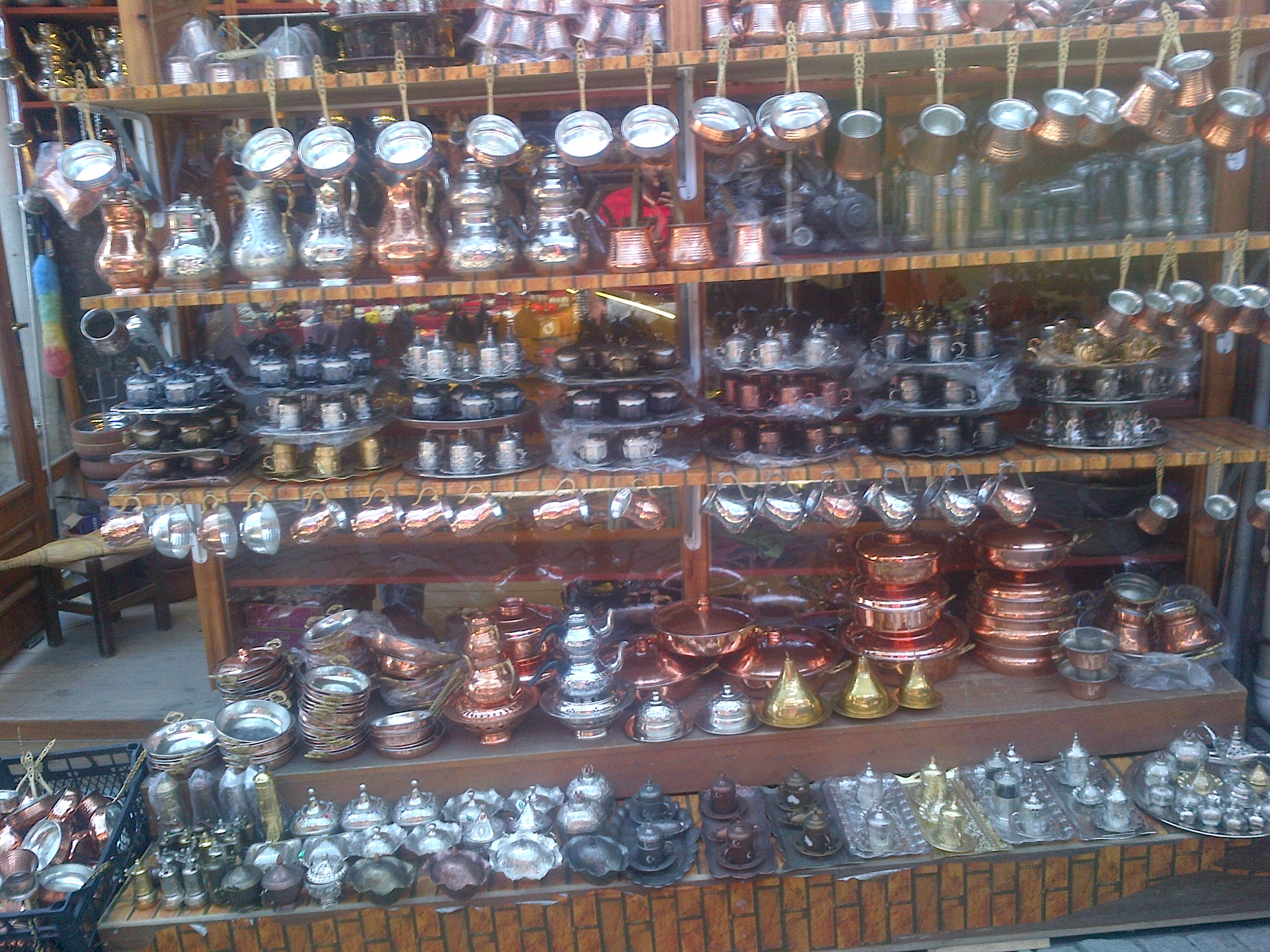 Traditional copperware in Beypazarı, Turkey.